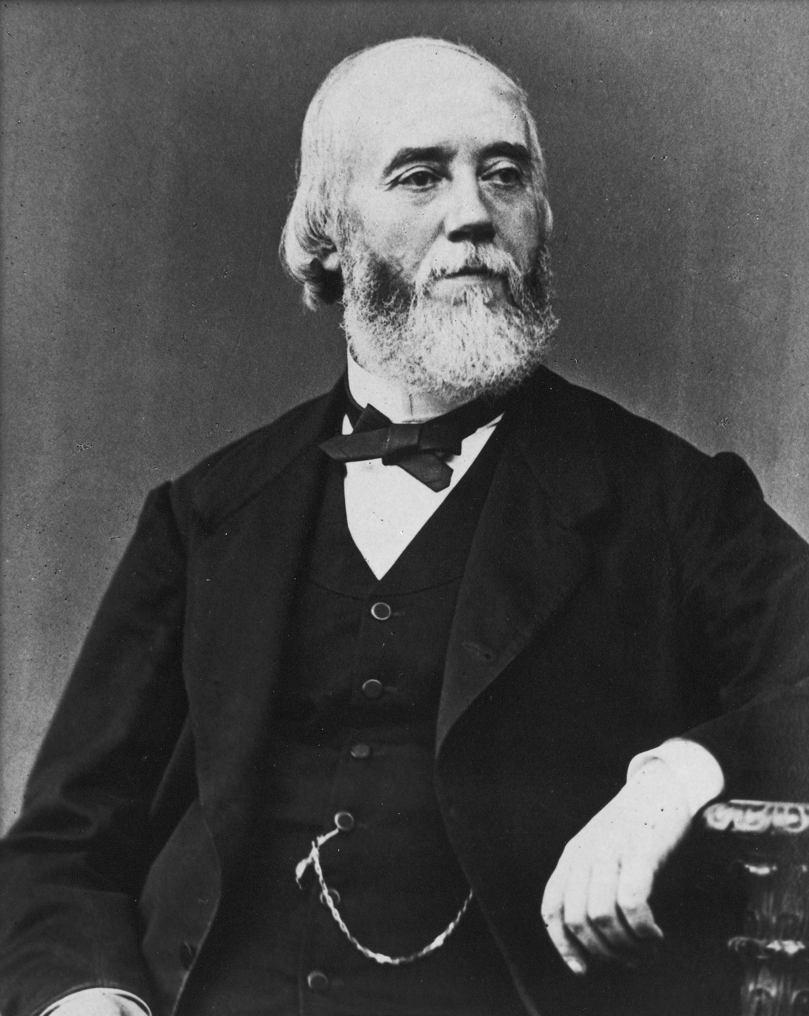 Tommaso Gar (1808-1871), Italian mathematician, professor and catholic priest. He was president of Venice's Institute of Science, Literature and Arts